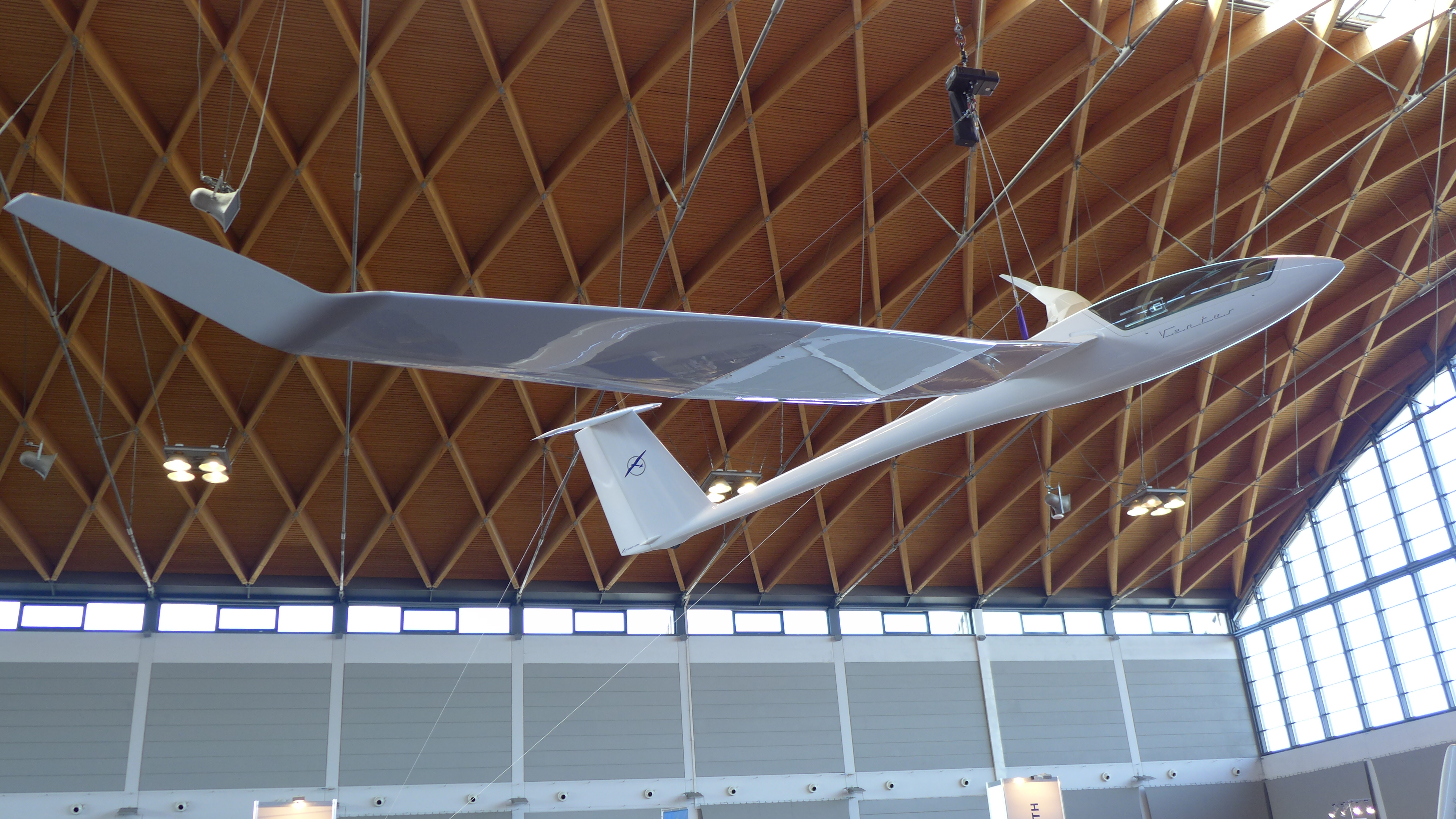 Mock-up of Ventus 3 at Aero Expo 2015